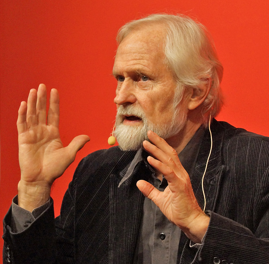 Jens Nauntofte, Danish writer and journalist